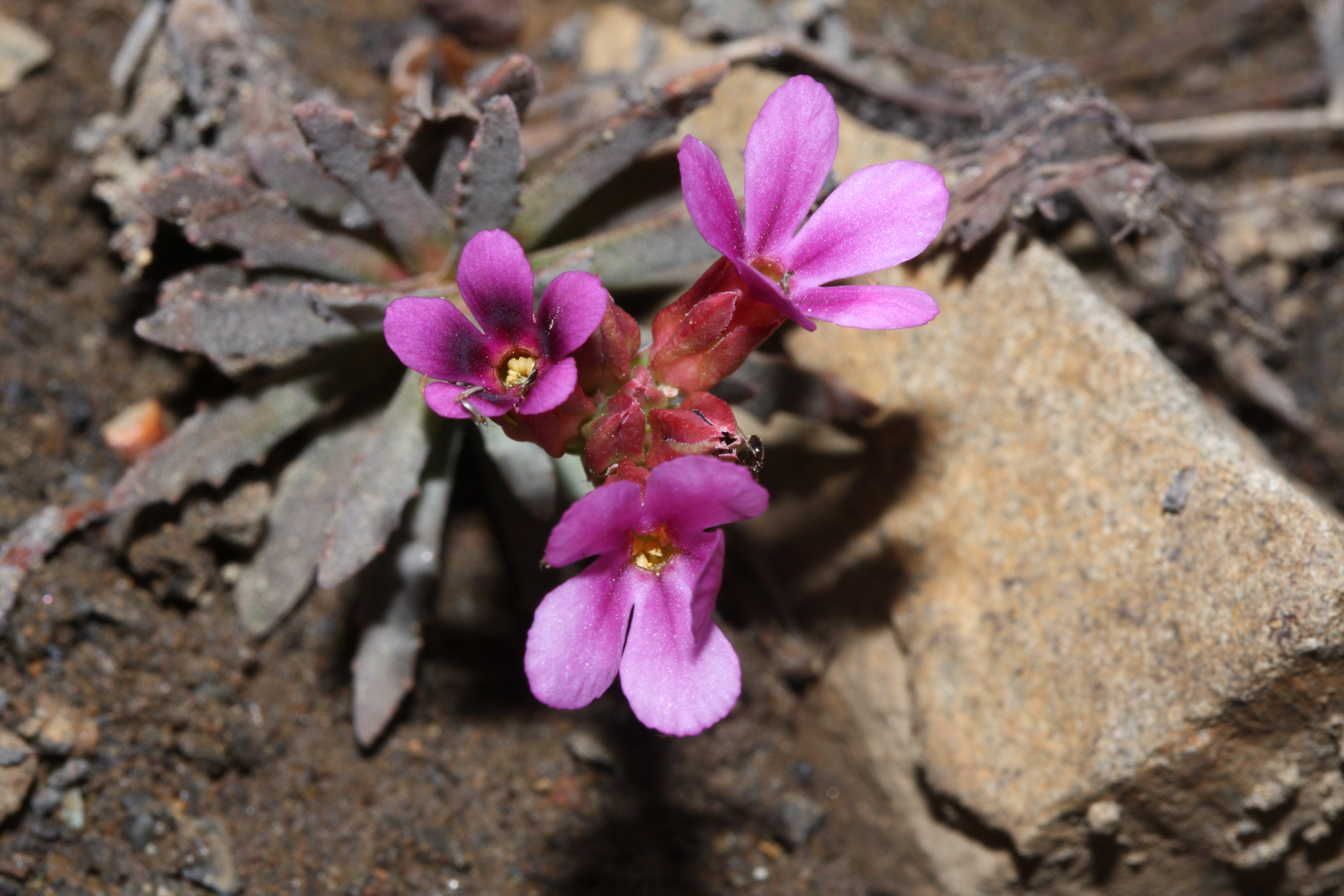 Snow Dwarf-primrose, Snow Douglasia